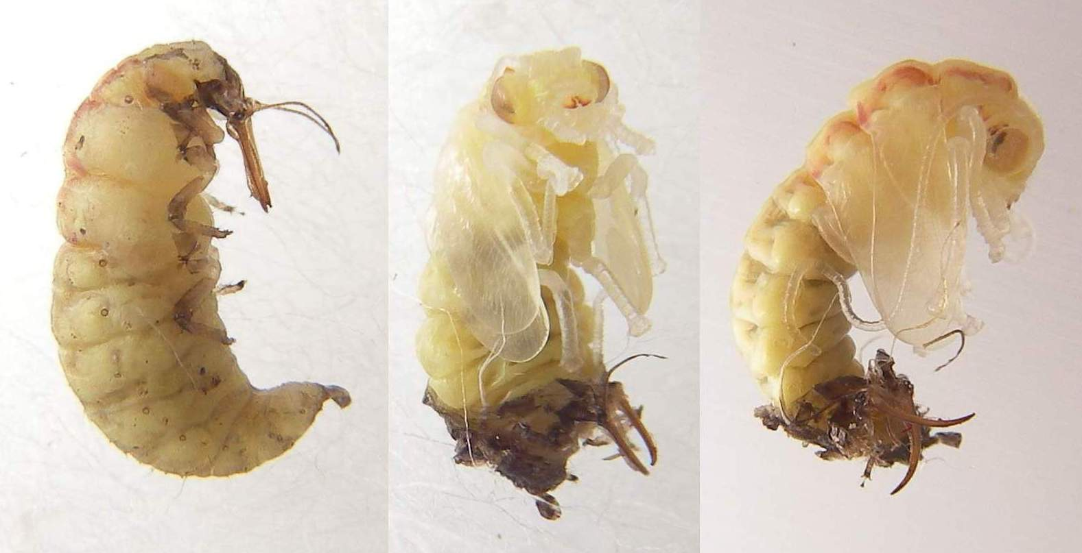 Prepupa (late final instar larva) and pupa of lacewing Chrysoperla carnea (collected in Russia, Belgorod Province, near Borisovka). The shed exuviae of the prepupa can be seen at the base of the pupa.